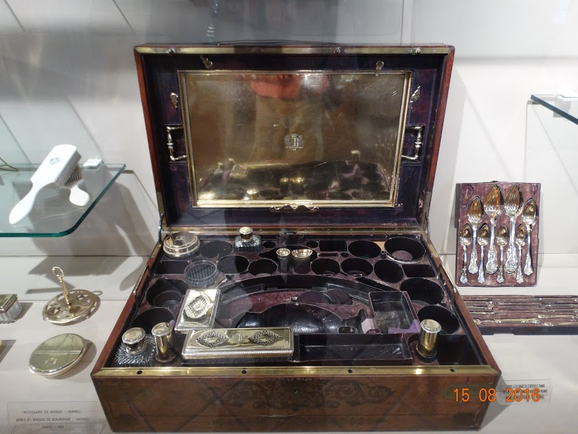 Perfumer box